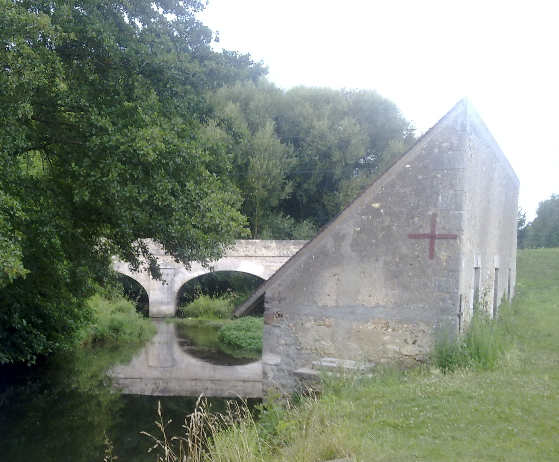 Wash house in La Chapelle-sur-Aveyron, Loiret, Centre, France.